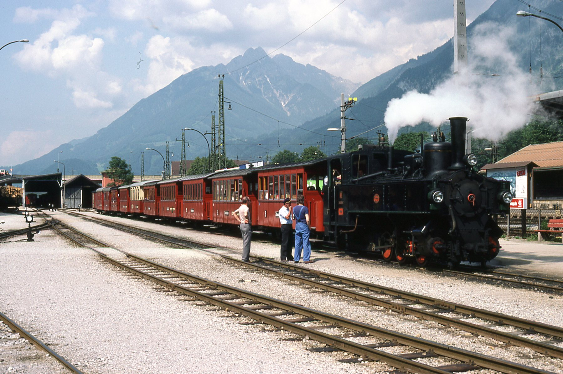 Zillertalbahn No 3 (Uv class) with tourist train at Jenbach station.